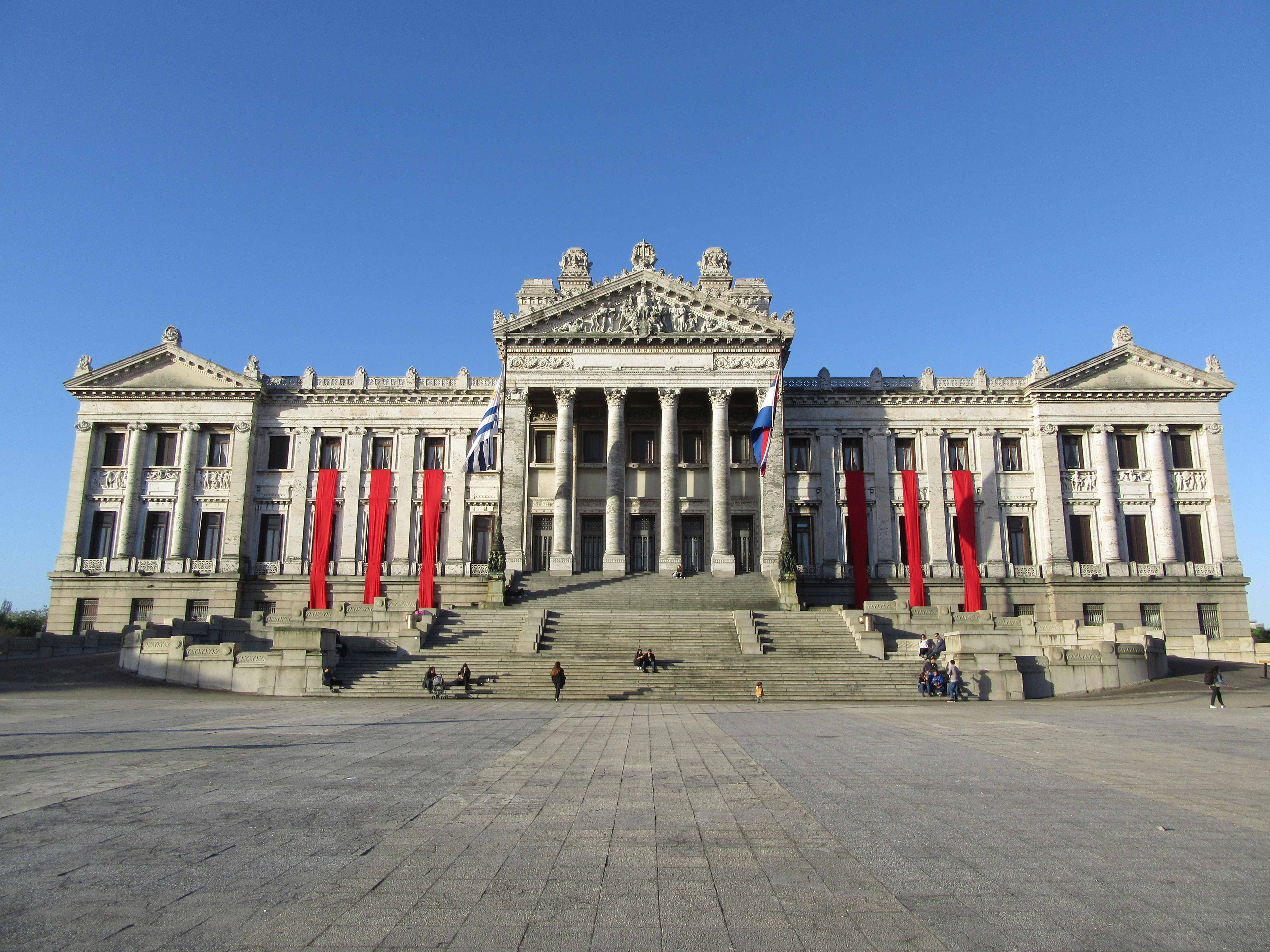 Montevideo